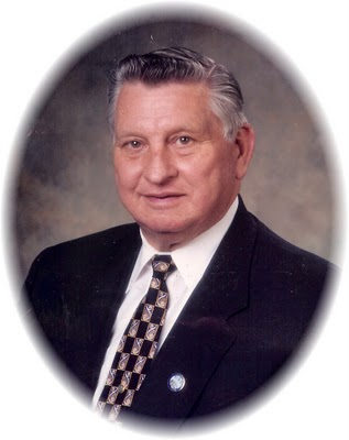 The Town Talk allows copying of its obit pictures. See obit section.